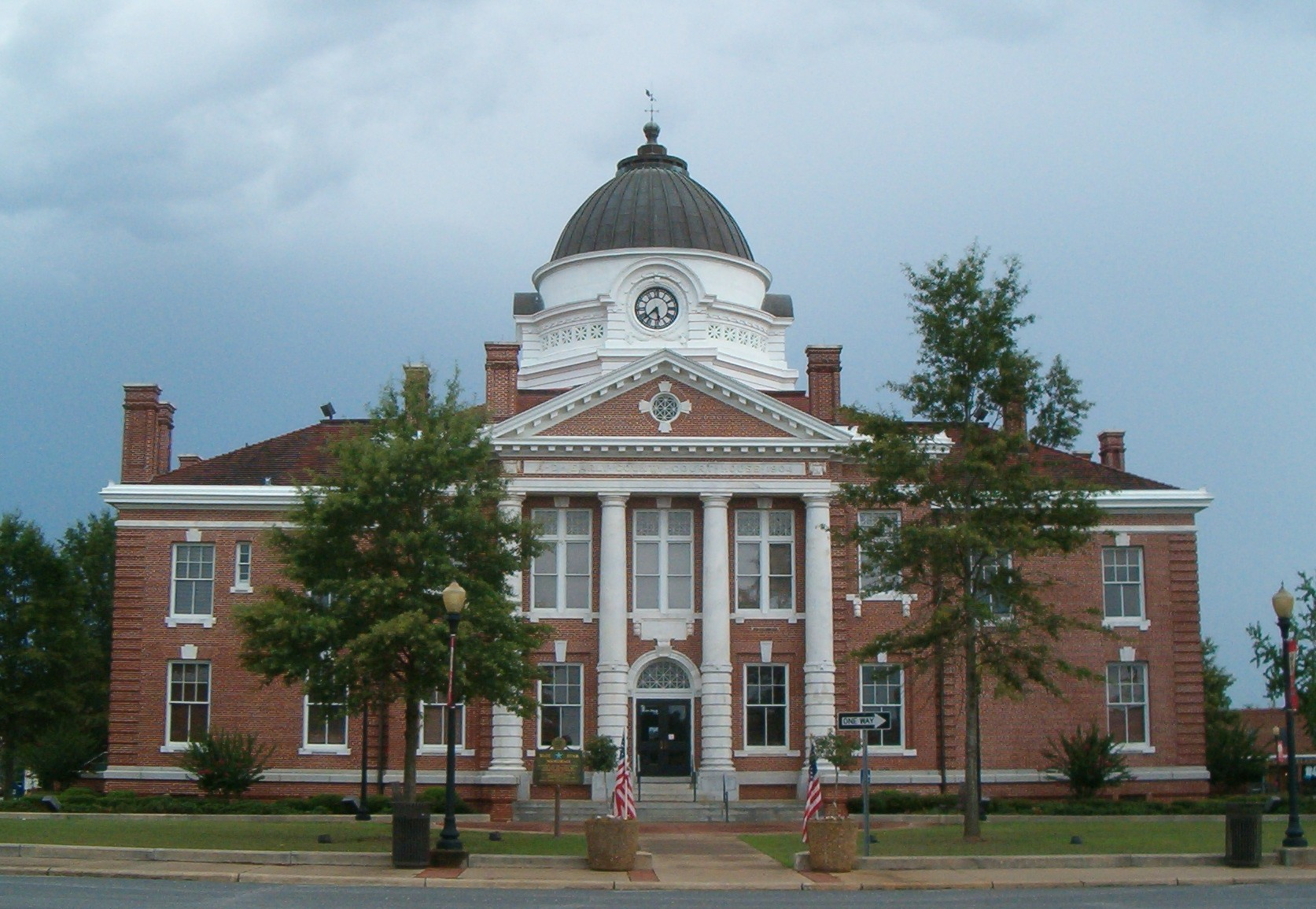 Early County Courthouse on the square in Blakely, Georgia, USA